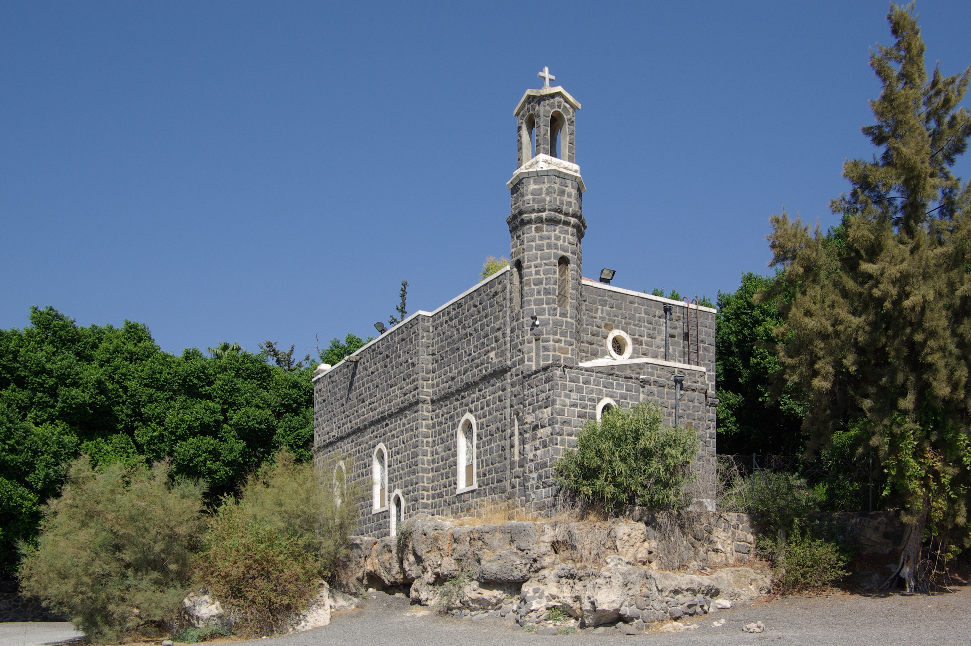 Church of the Primacy of St Peter